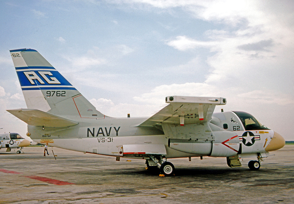 Lockheed S-3A Viking 159762 of VS-31 Squadron at NAS Cecil Field Florida in 1976